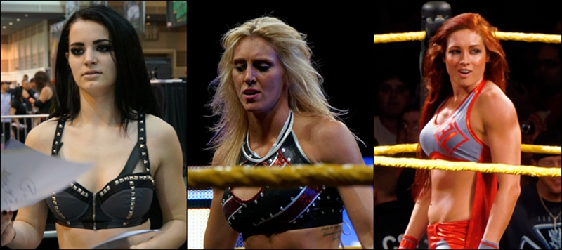 Team PCB: Paige, Charlotte and Becky Lynch.